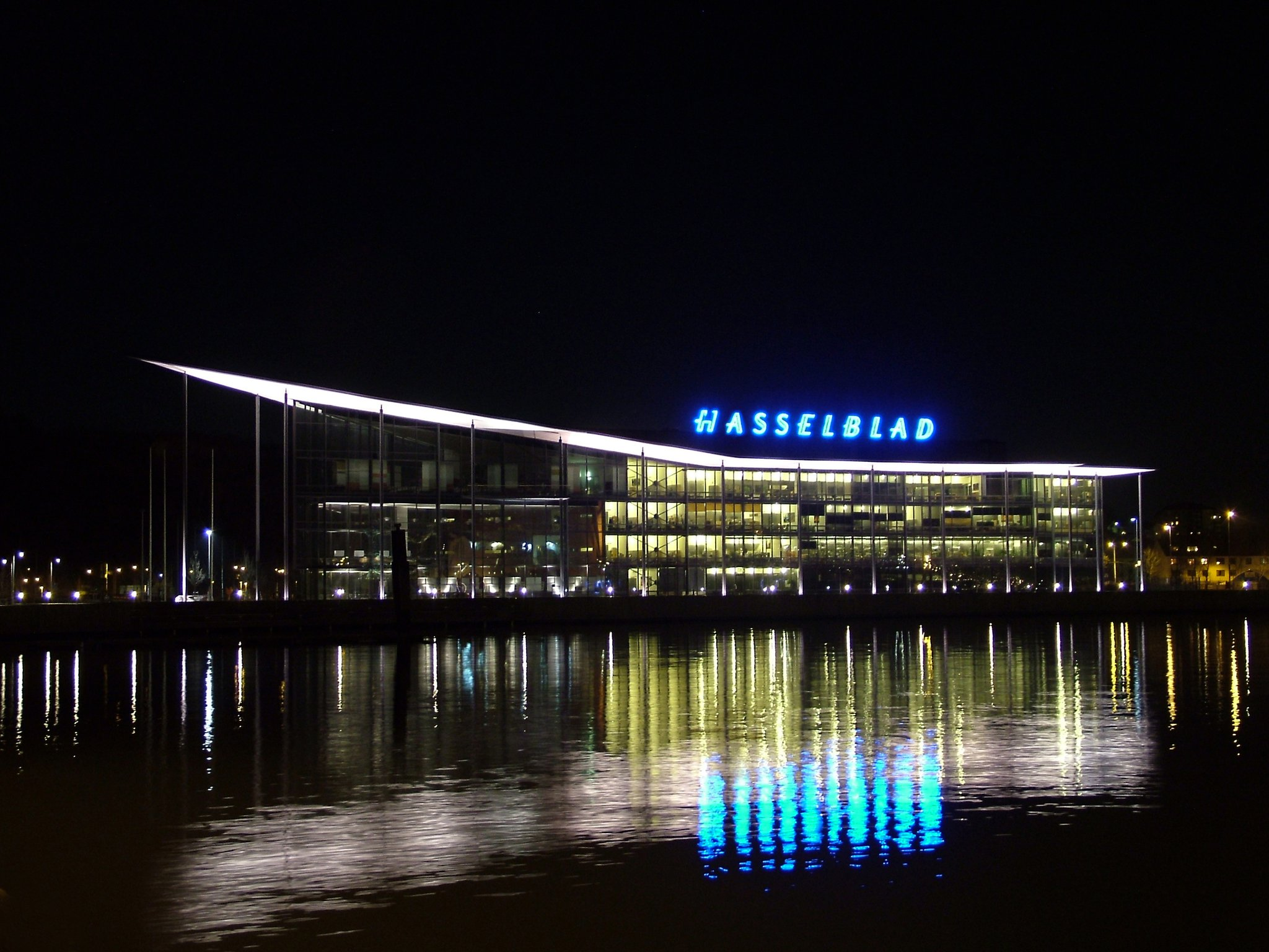 Hasselblad Headquarter